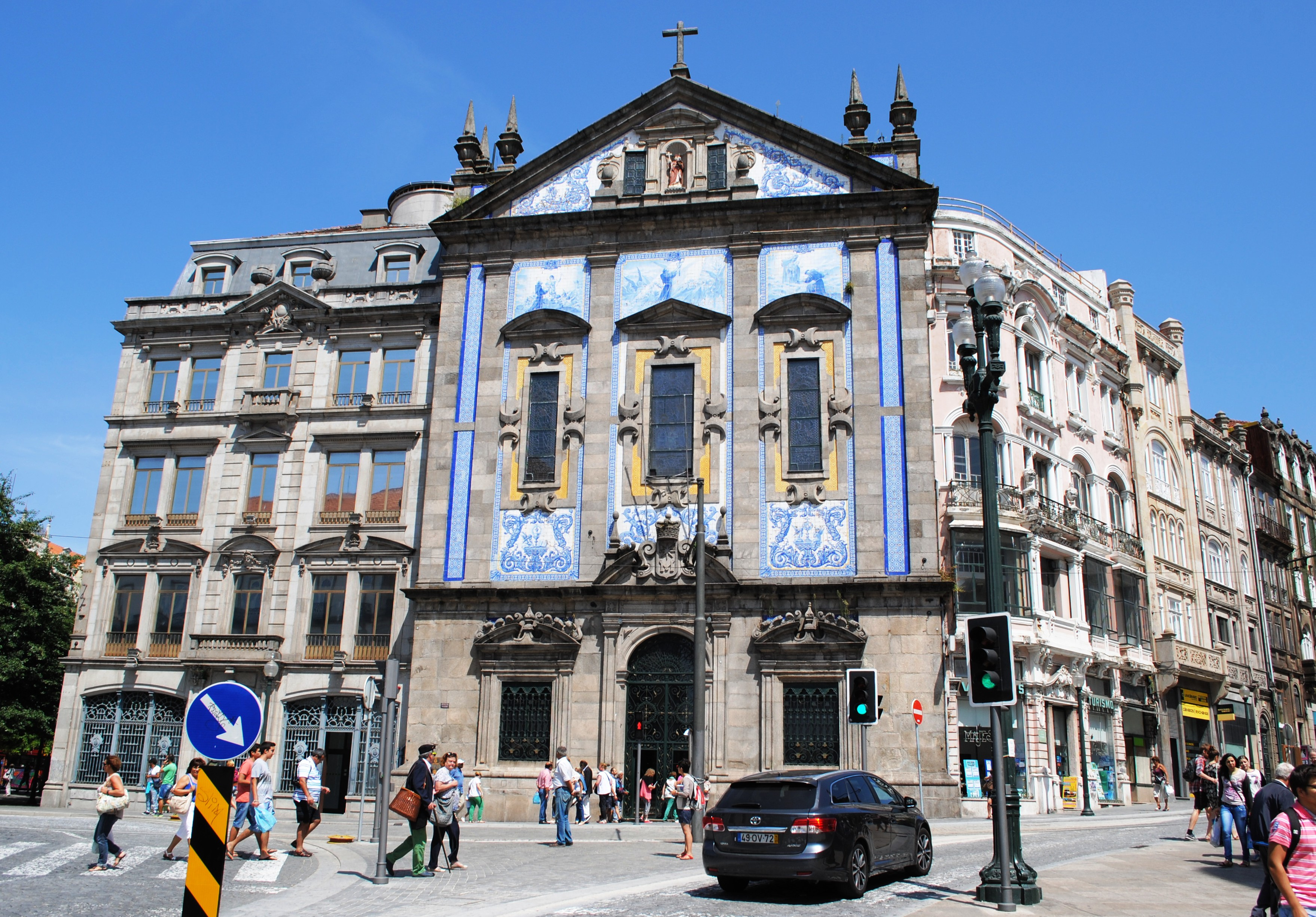 See title and categories.